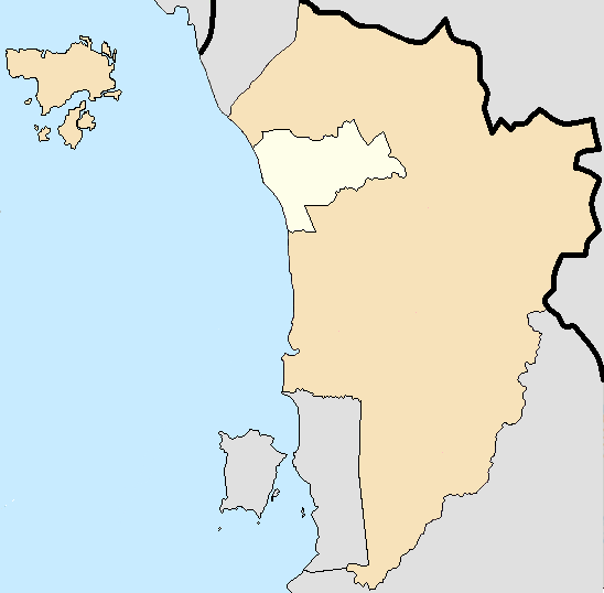 Location map of Alor Setar, the capital city of the Malaysian state of Kedah.